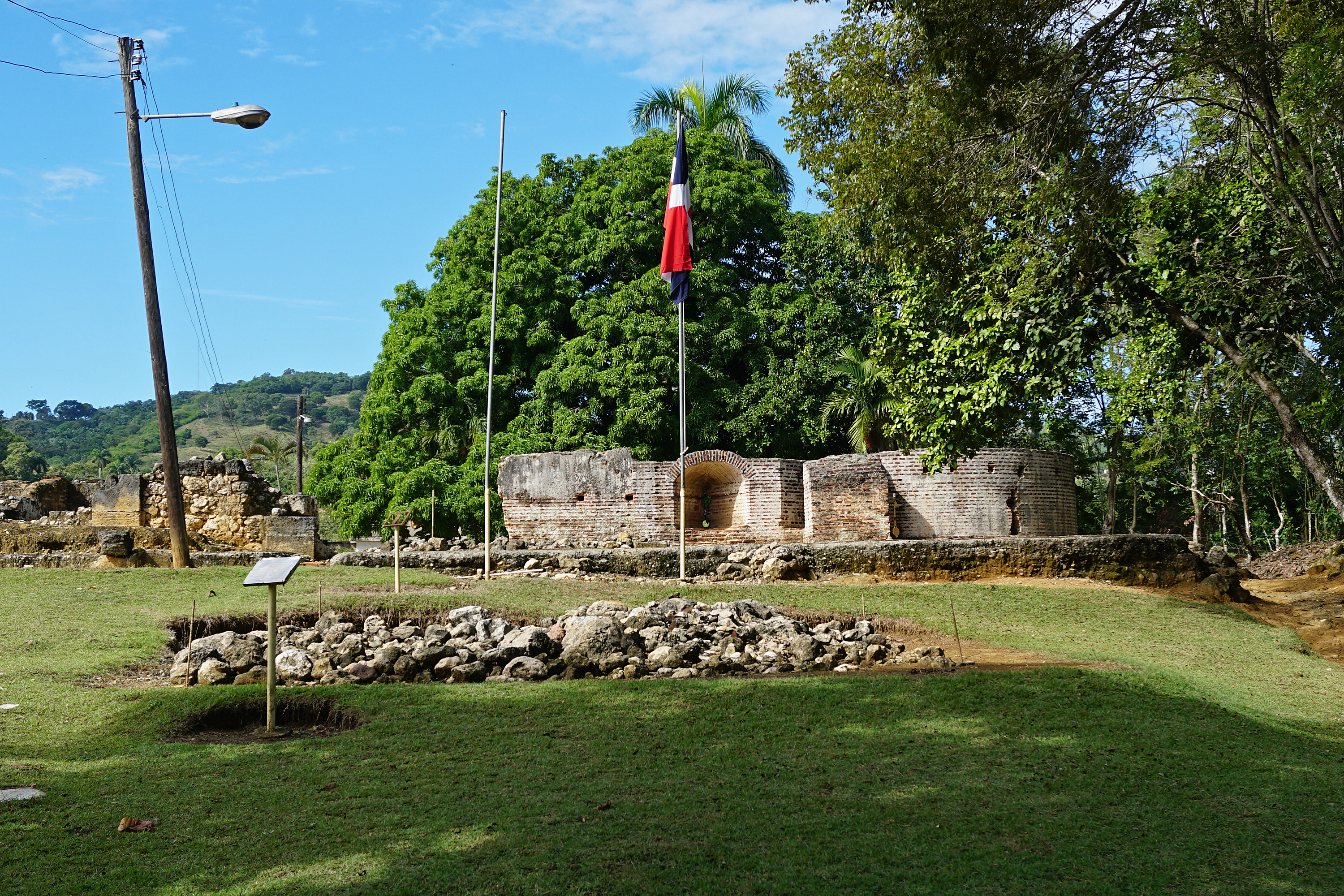 Concepción de la Vega Fort, La Vega Vieja, Dominican Republic